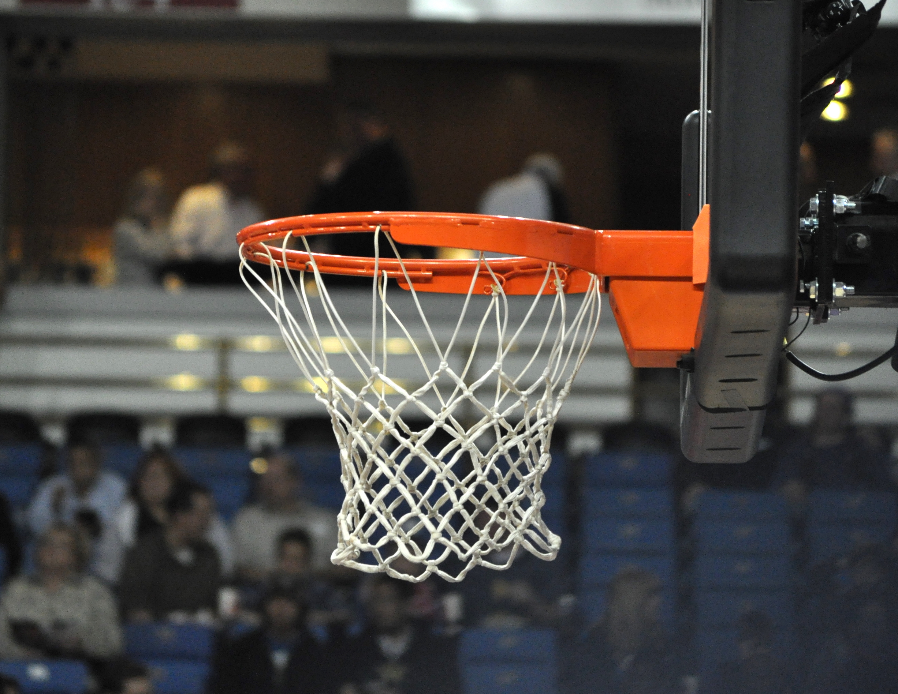 A basketball hoop and net at Arco Arena. A ball can be seen about to pass though the hoop. Also of interest are two microphones used to pickup and amplify the sounds made when a contact is made with the backboard, net and hoop.